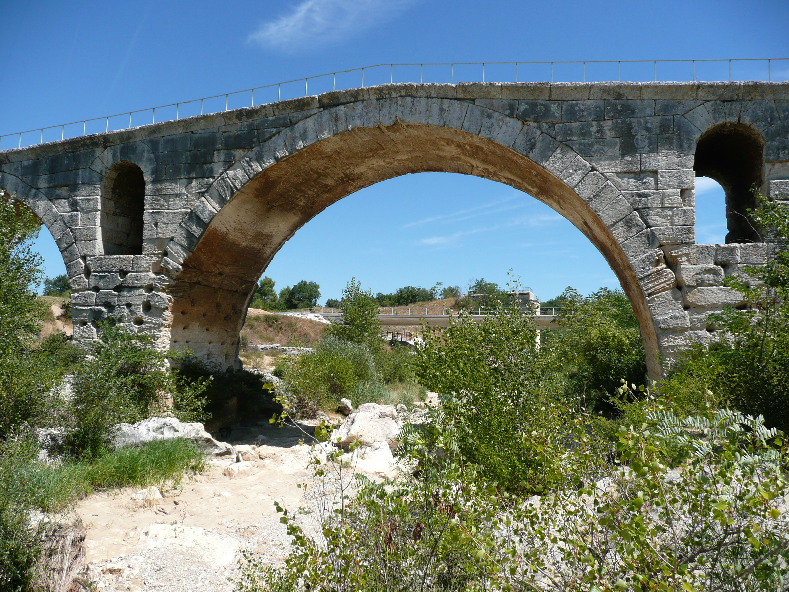 The Roman Pont Julien near Apt, Vaucluse department, France